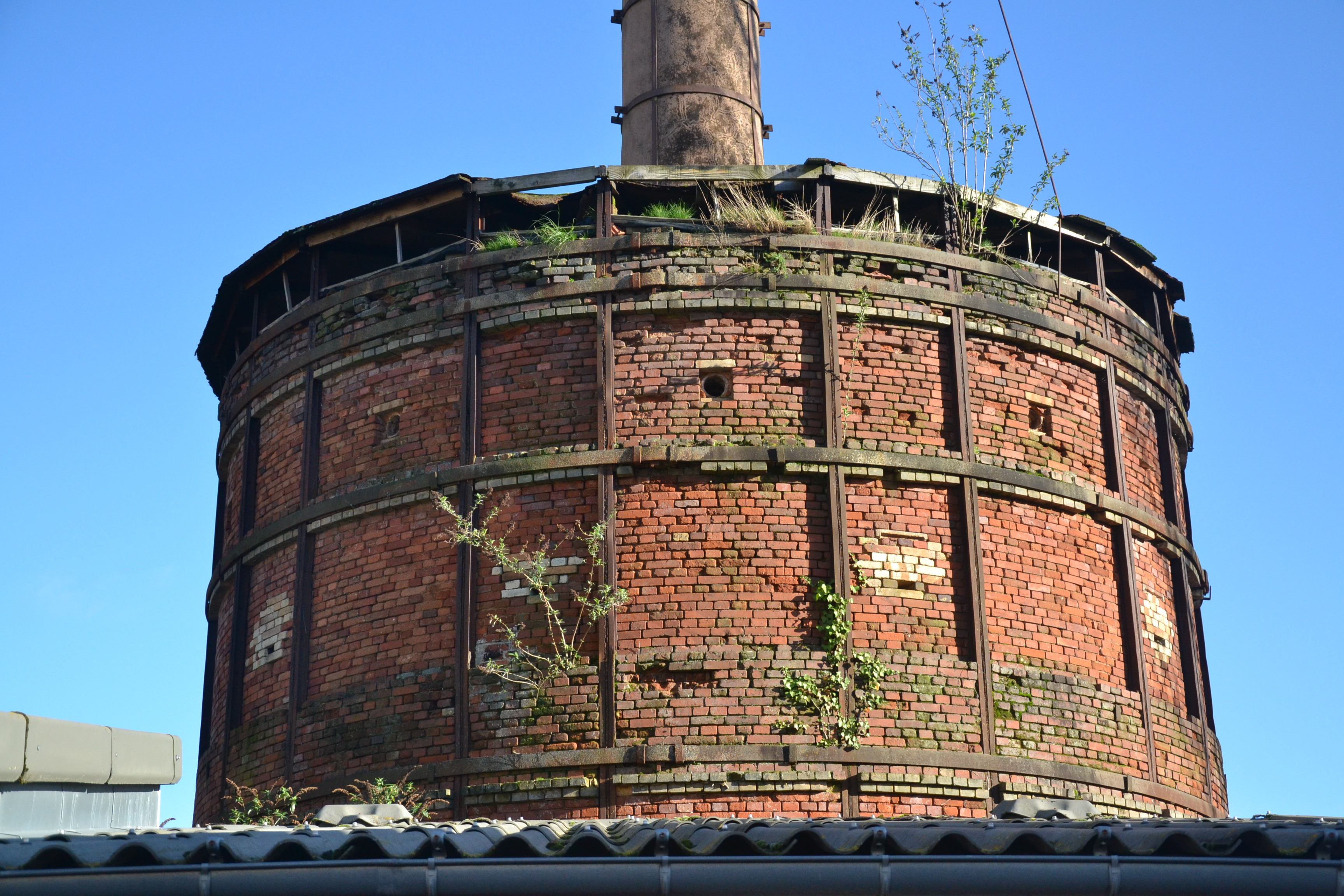 Ancient porcelain kiln in Haviland, Limoges (Haute-Vienne, France).